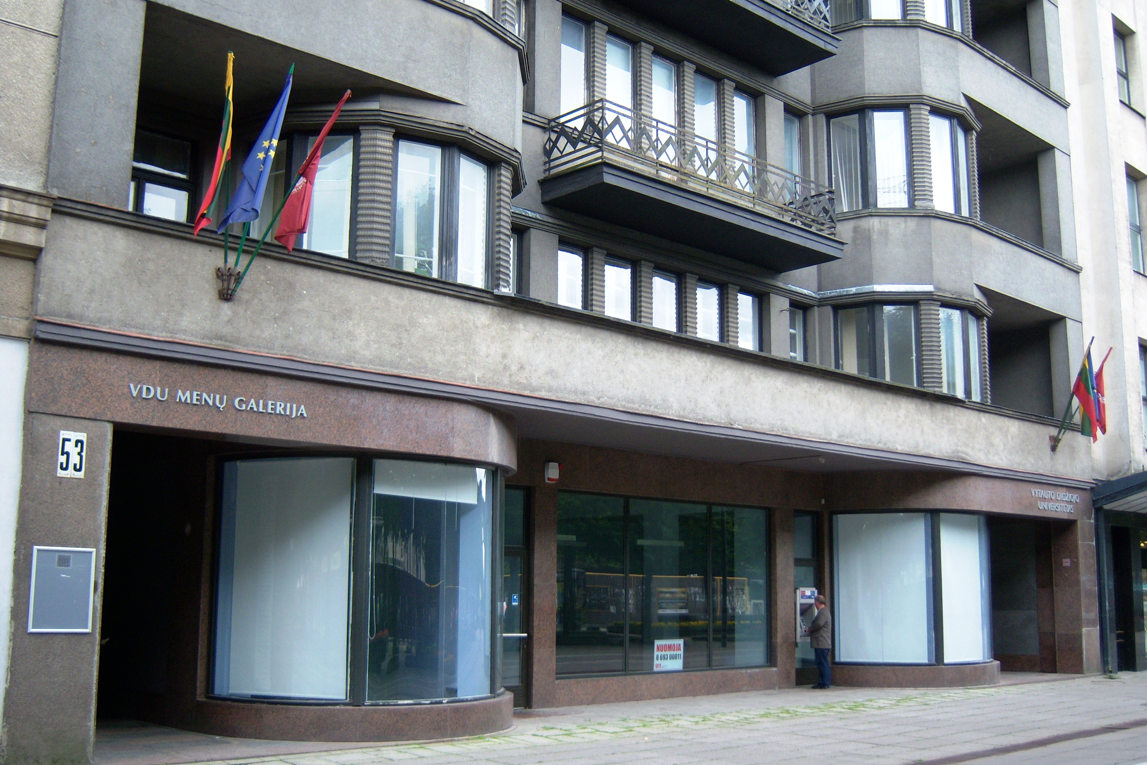 Vytautas Magnus University, Faculty of Arts, Kaunas, Lithuania